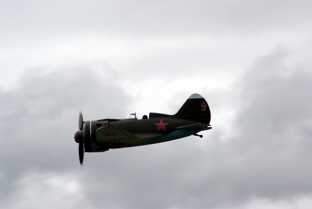 Polikarpov I-16 at Warbirds Over Wanaka International Airshow 2008